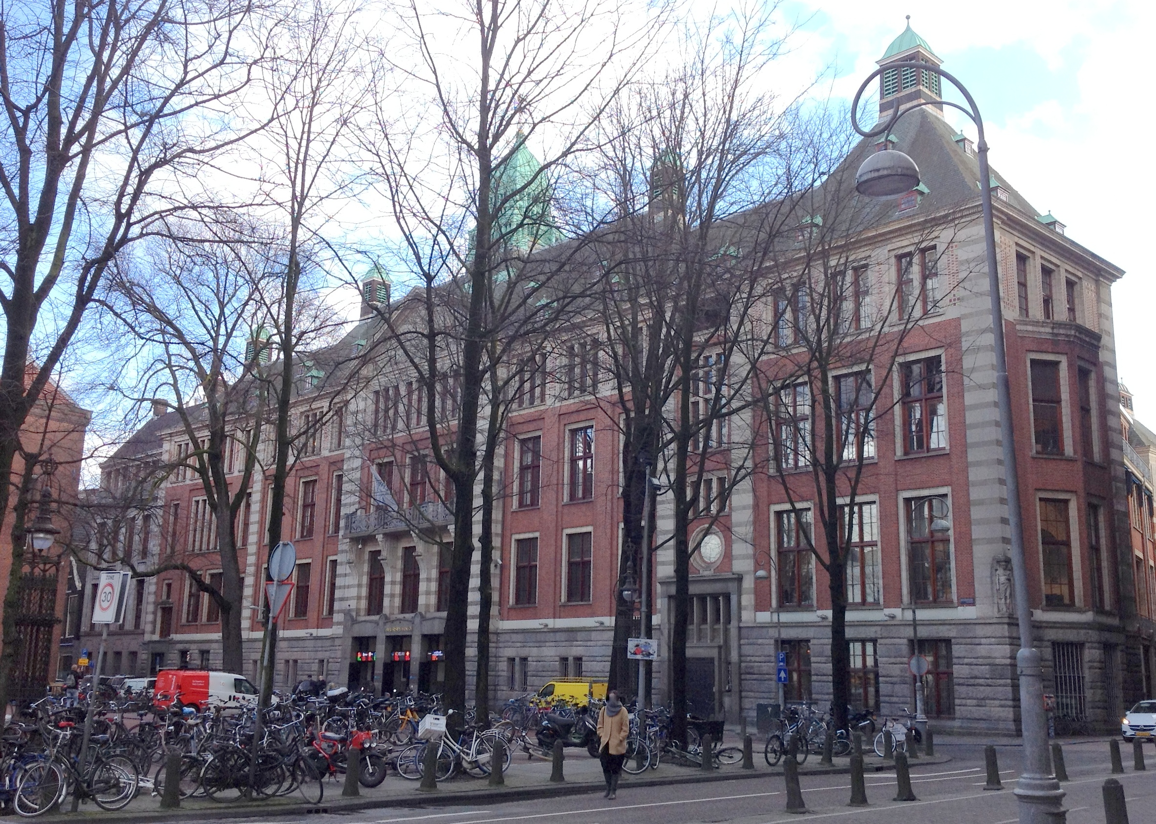 Amsterdam Stock Exchange, full front view